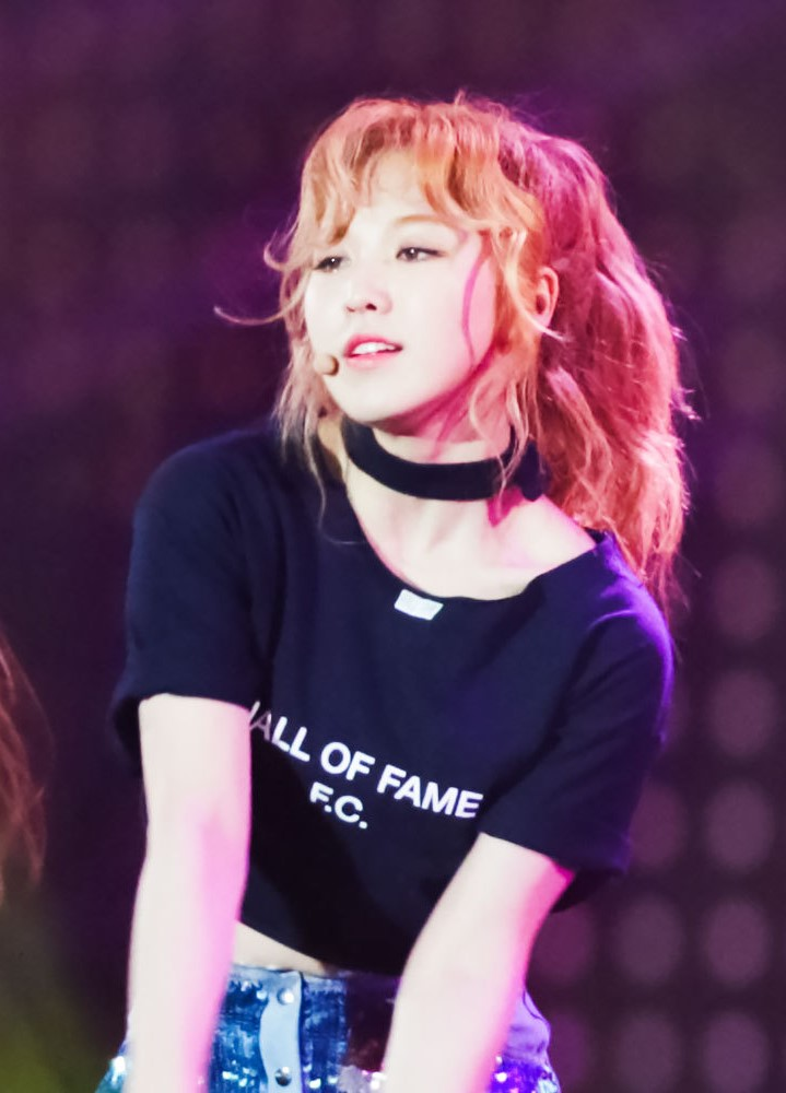 Wendy Son at 25th Seoul Music Awards on January 14, 2016.